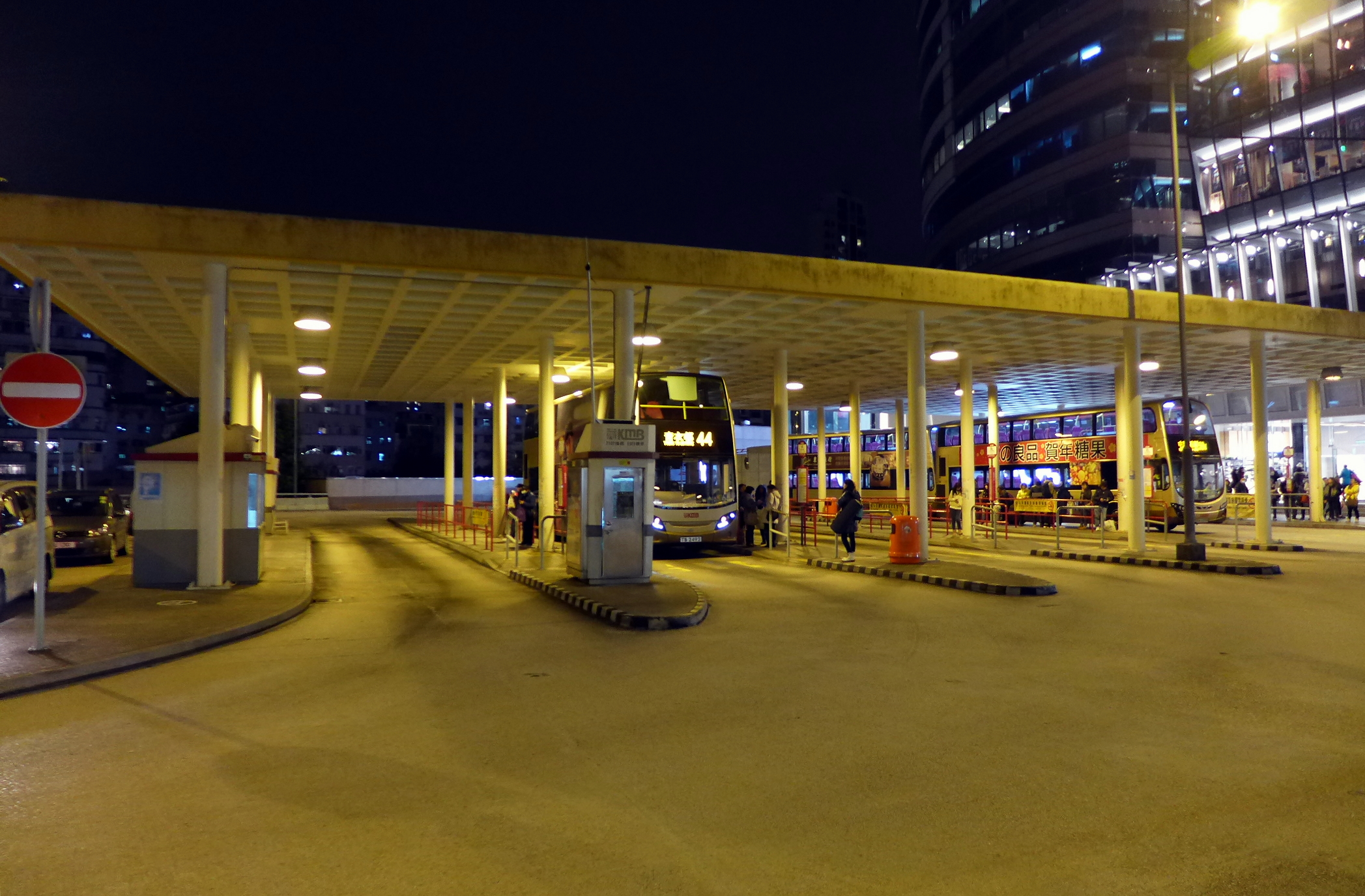 Mong Kok East Station Public Transport Interchange